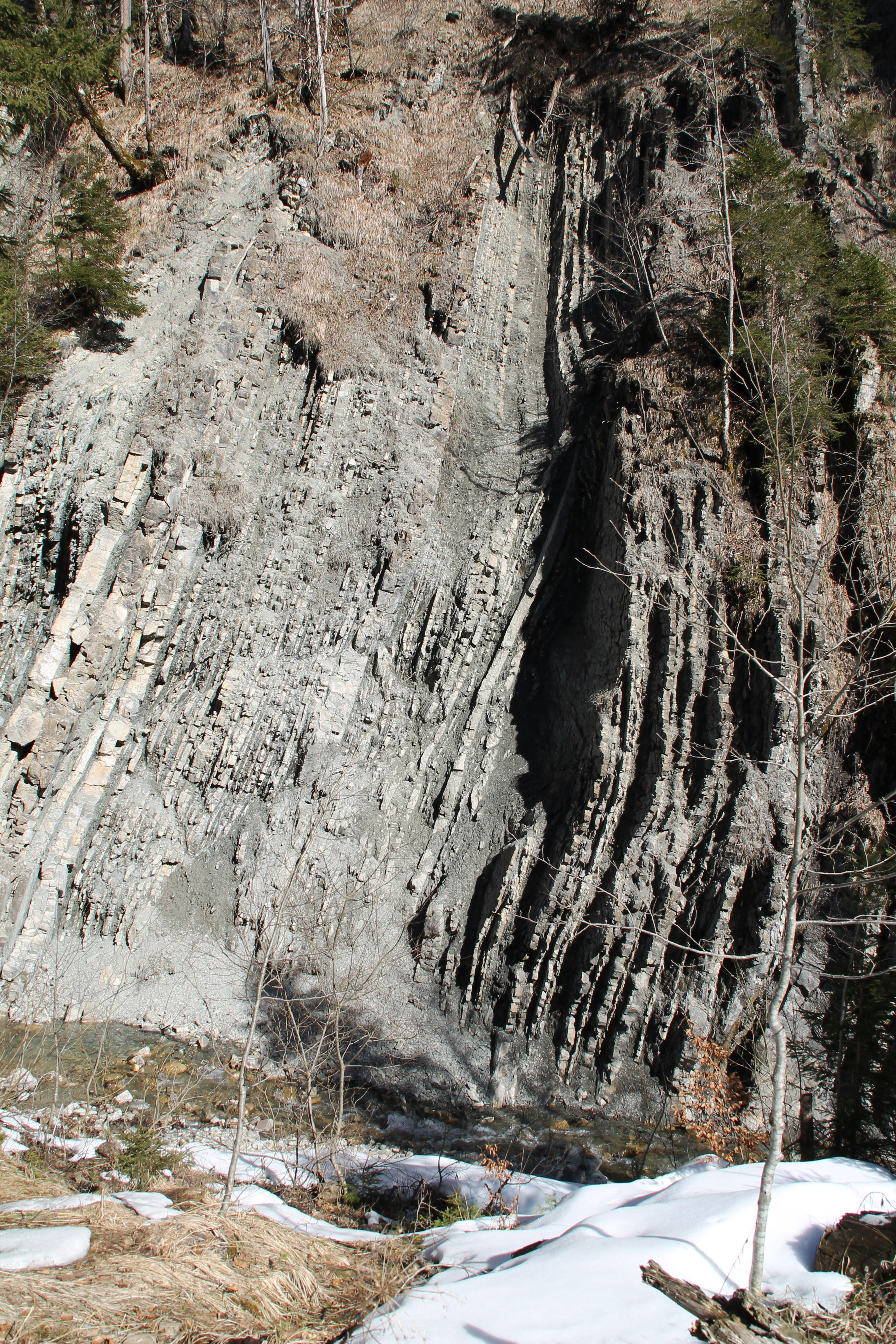 Exposure with steeply tilted, rhythmically bedded limestone-marl-claystone alternation of the Piesenkopf Formation (Upper Cretaceous) in the valley of the Röthenbach creek, Ammergau Alps, Bavaria, Germany. The succession is part of the Rhenodanubian Flysch and thus part of the Penninic domain. The exposure is a protected geotope and is selected one of the „100 most beautiful geotopes of Bavaria“.